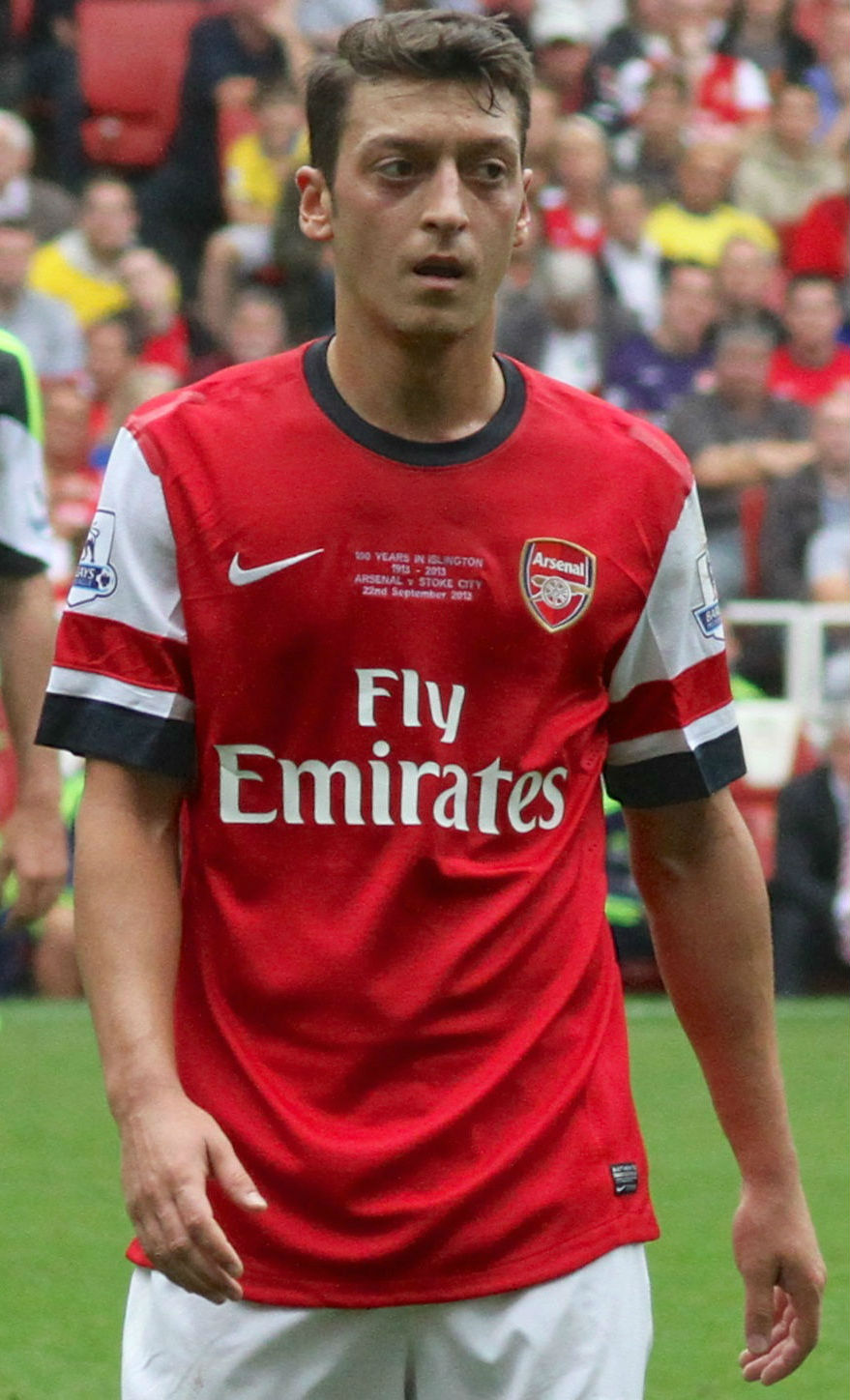 Mesut Özil playing for Arsenal against Stoke City, 22 September 2013